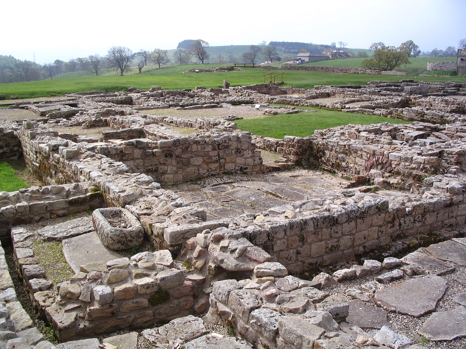 Vindolanda was a Roman auxiliary fort located at Chesterholm, just south of Hadrian's Wall in northern England, near the modern border with Scotland, guarding the Stanegate. It is famous for the find of the Vindolanda tablets, one of the most important finds of military and private correspondence (written on wooden tablets) found anywhere in the Empire.